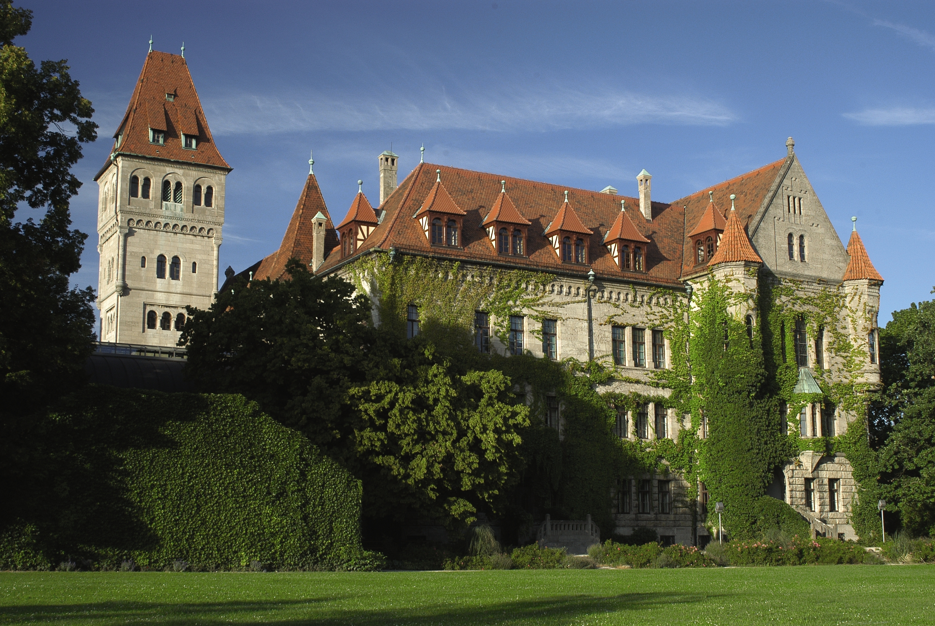 FC Schloss